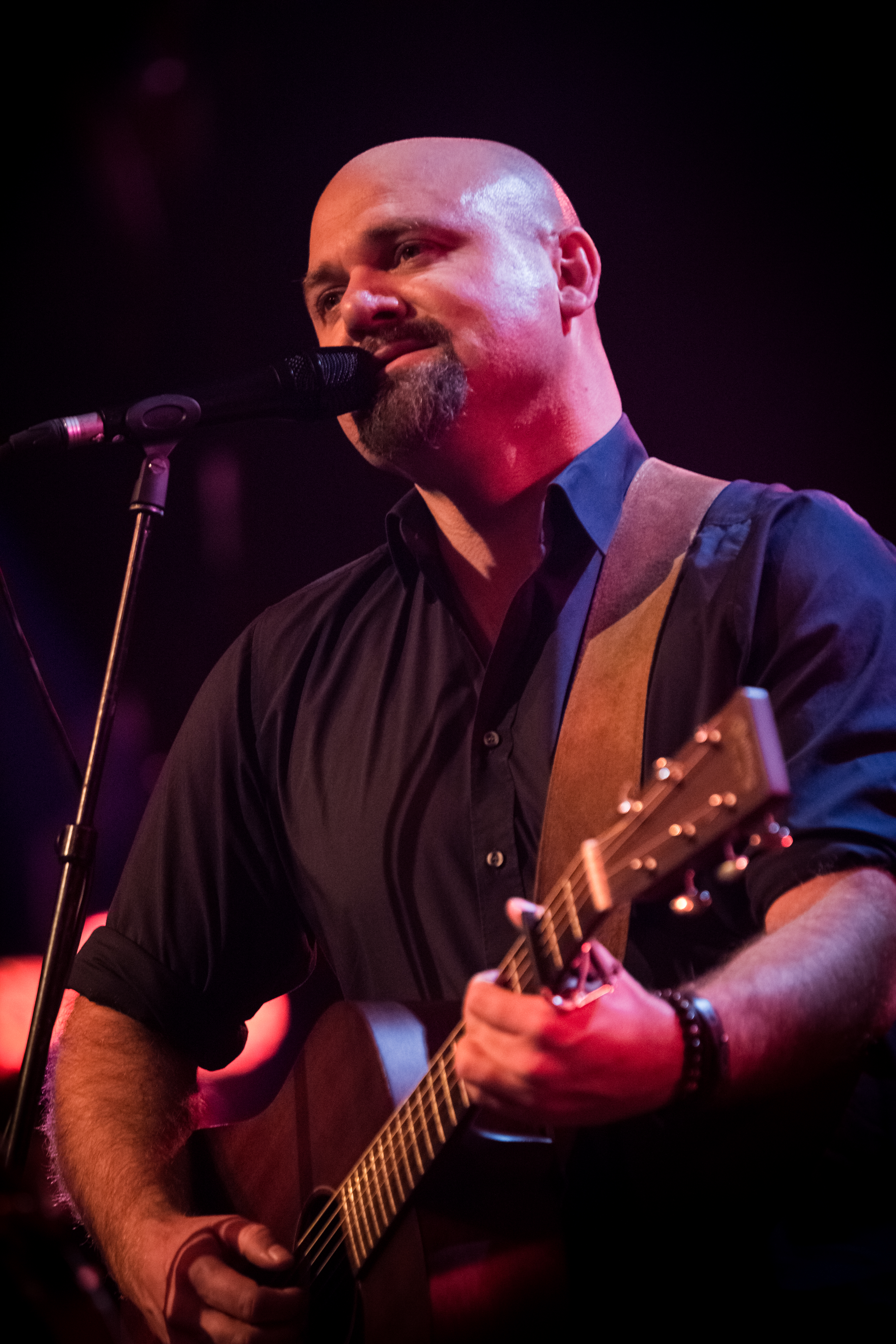 Arthur Horváth - Leverkusener Jazztage 2016